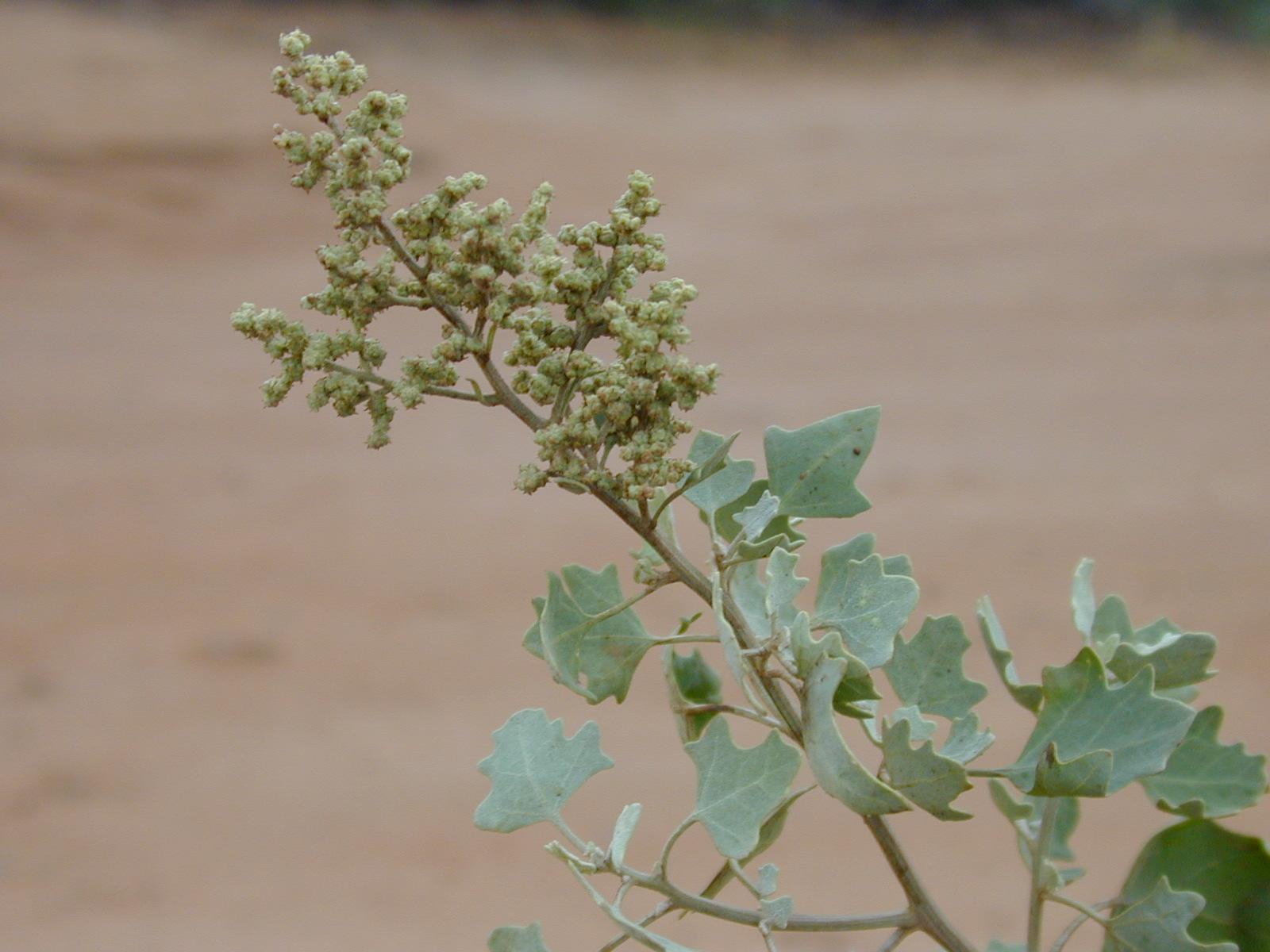 Chenopodium oahuense (flowers). Location: Maui, Kanaha Beach